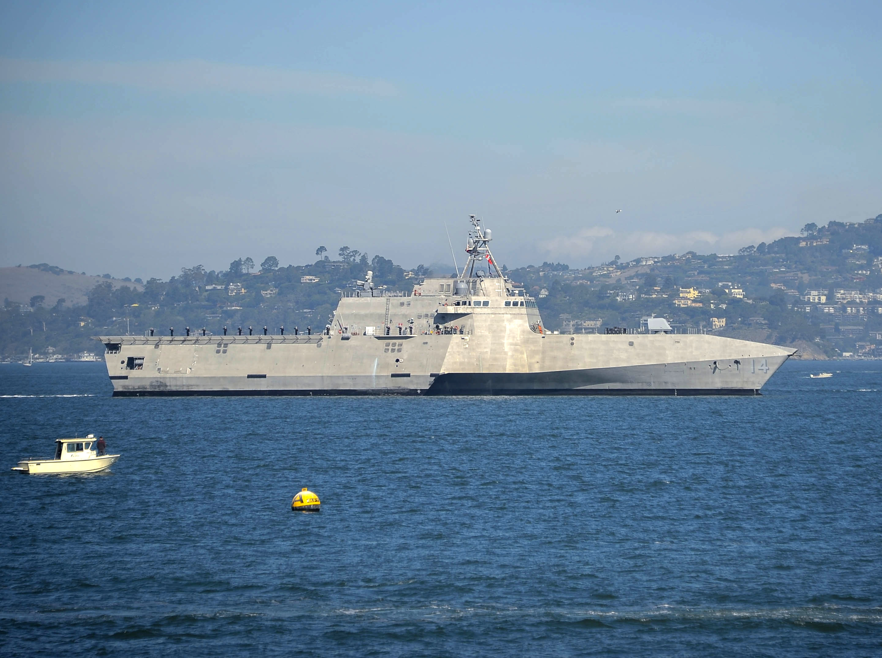 The U.S. Navy Independence-class littoral combat ship USS Manchester (LCS-14) transits San Francisco Bay (USA) while participating in the annual parade of ships during San Francisco Fleet Week 2018.